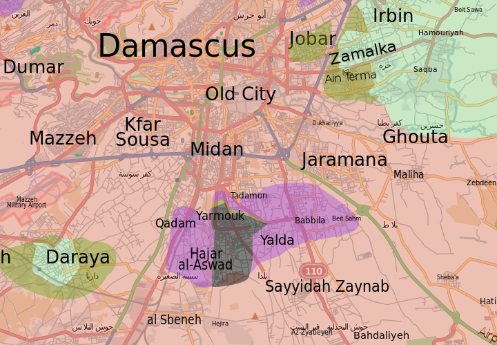 Map of the southern Damascus area during the Battle of Yarmouk Camp (2015), on April 4, 2015. ISIL entered the Yarmouk Camp on April 1, displacing thousands of civilians, and causing battle to erupt between the Syrian Opposition groups present, the Syrian Army, and the ISIL forces, backed by al-Nusra Front al-Qaeda militants. The battle raged until April 20, when ISIL was defeated by the Syrian rebels and driven from Damascus.